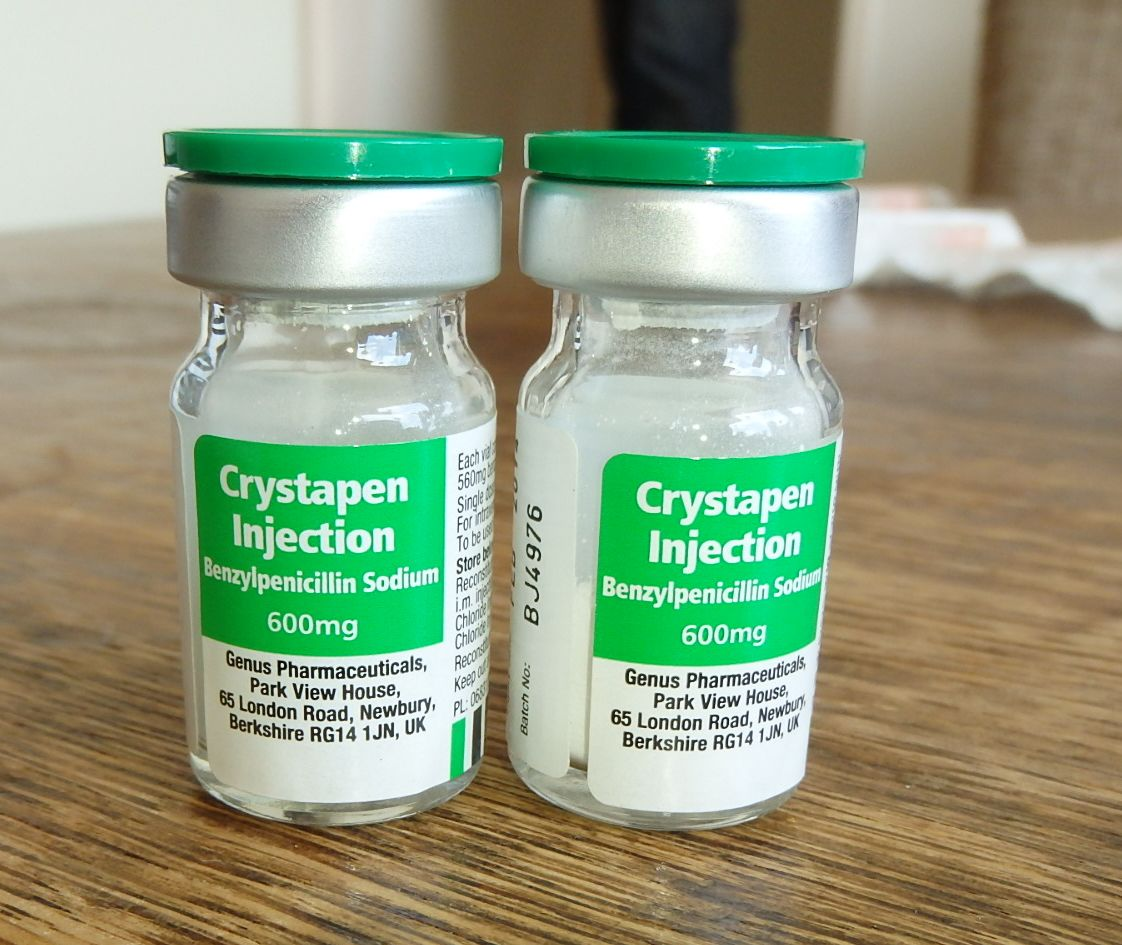 bottles of Benzylpenicillin Sodium for injections